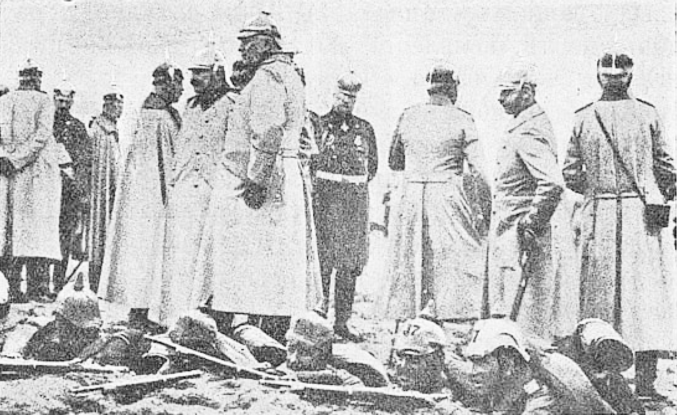 Wilhelm II, German Emperor and Kuno von Moltke